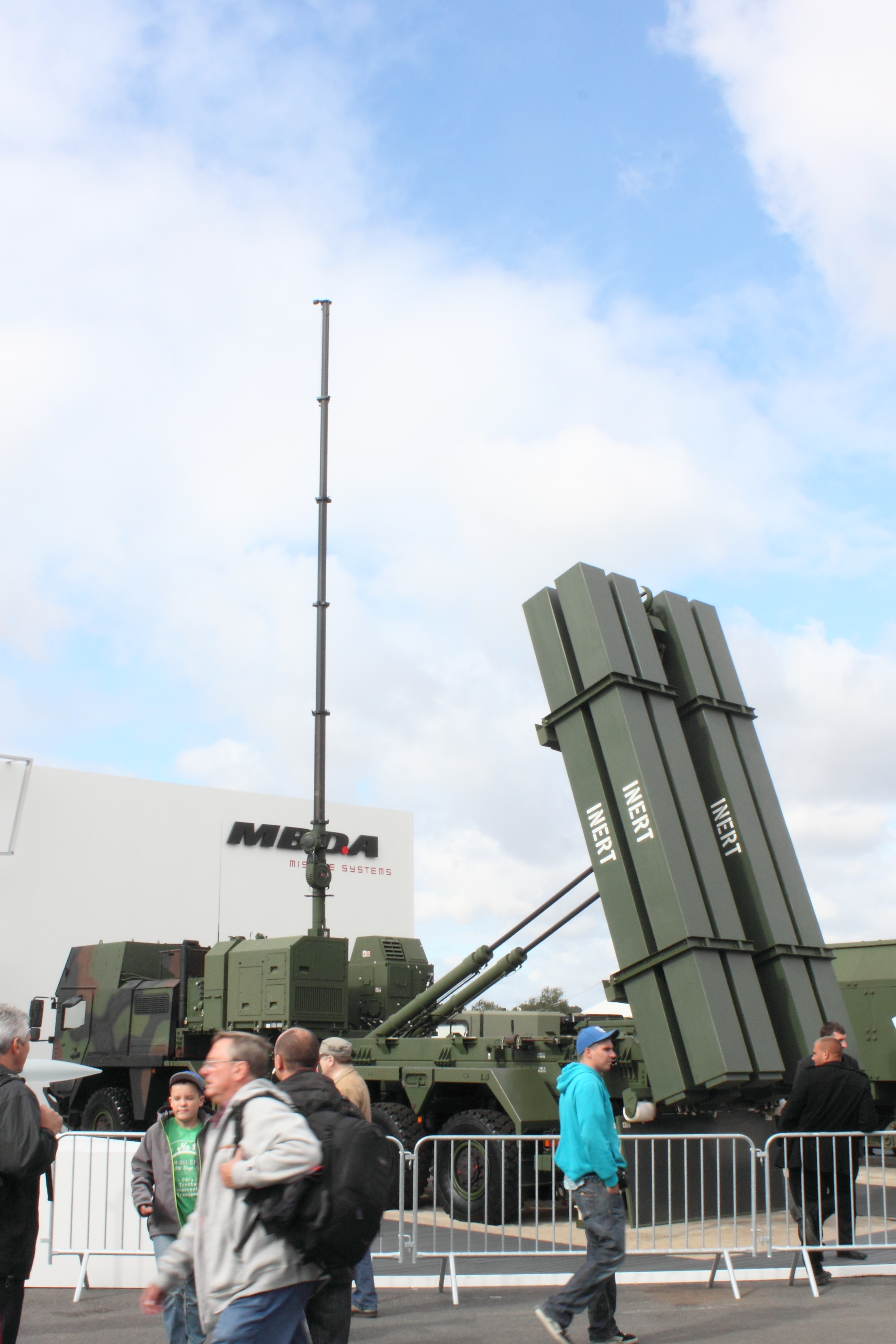 ILA Berlin Air Show 2012; MBDA MEADS missile launcher (MEADS = Medium Extended Air Defense System)